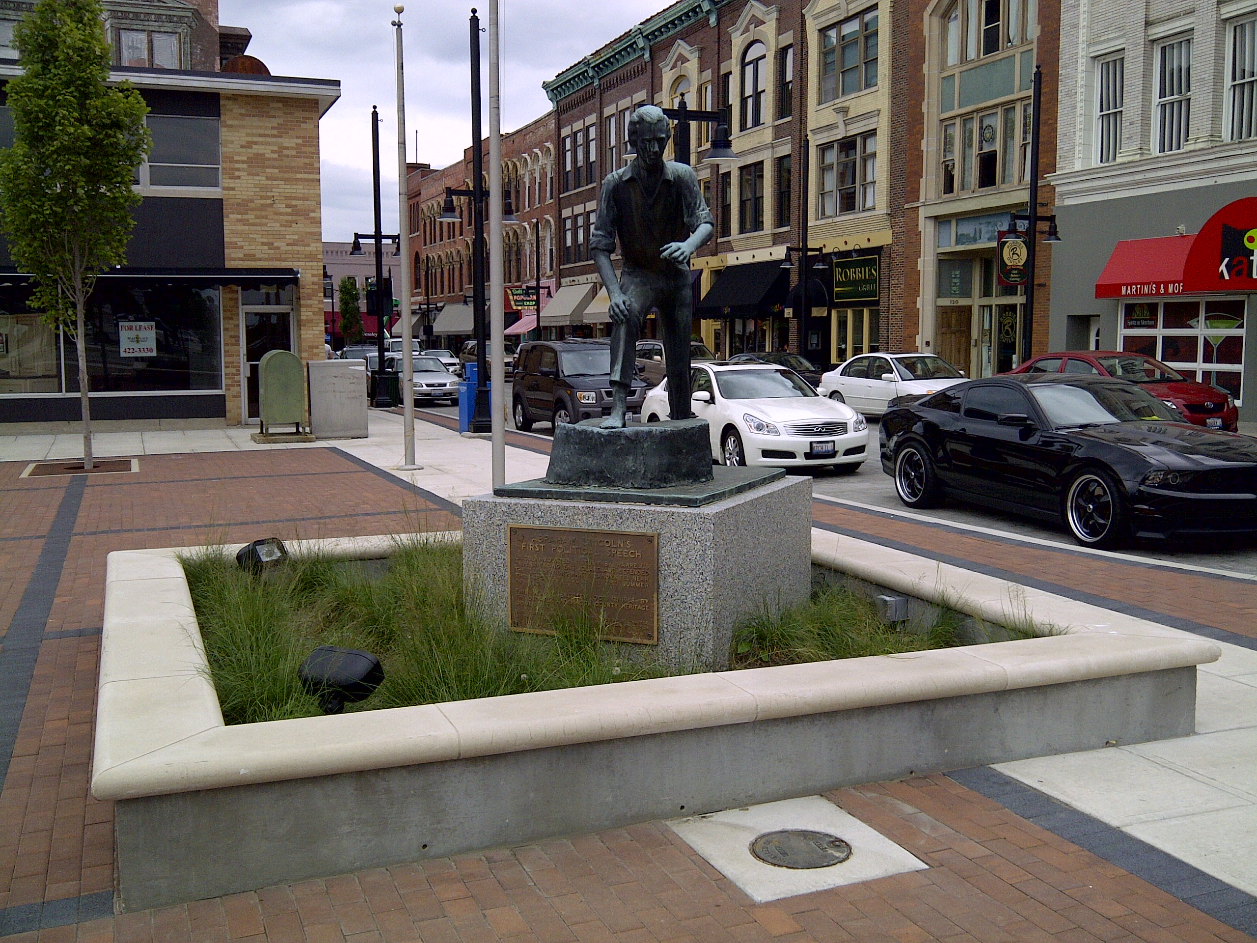 Plaque reads “Abraham Lincoln’s first political speech: Lincoln mounted a stump by Harrell’s Tavern facing this square and defended the Illinois Whig party candidates near this spot at age 21 in the summer of 1830”